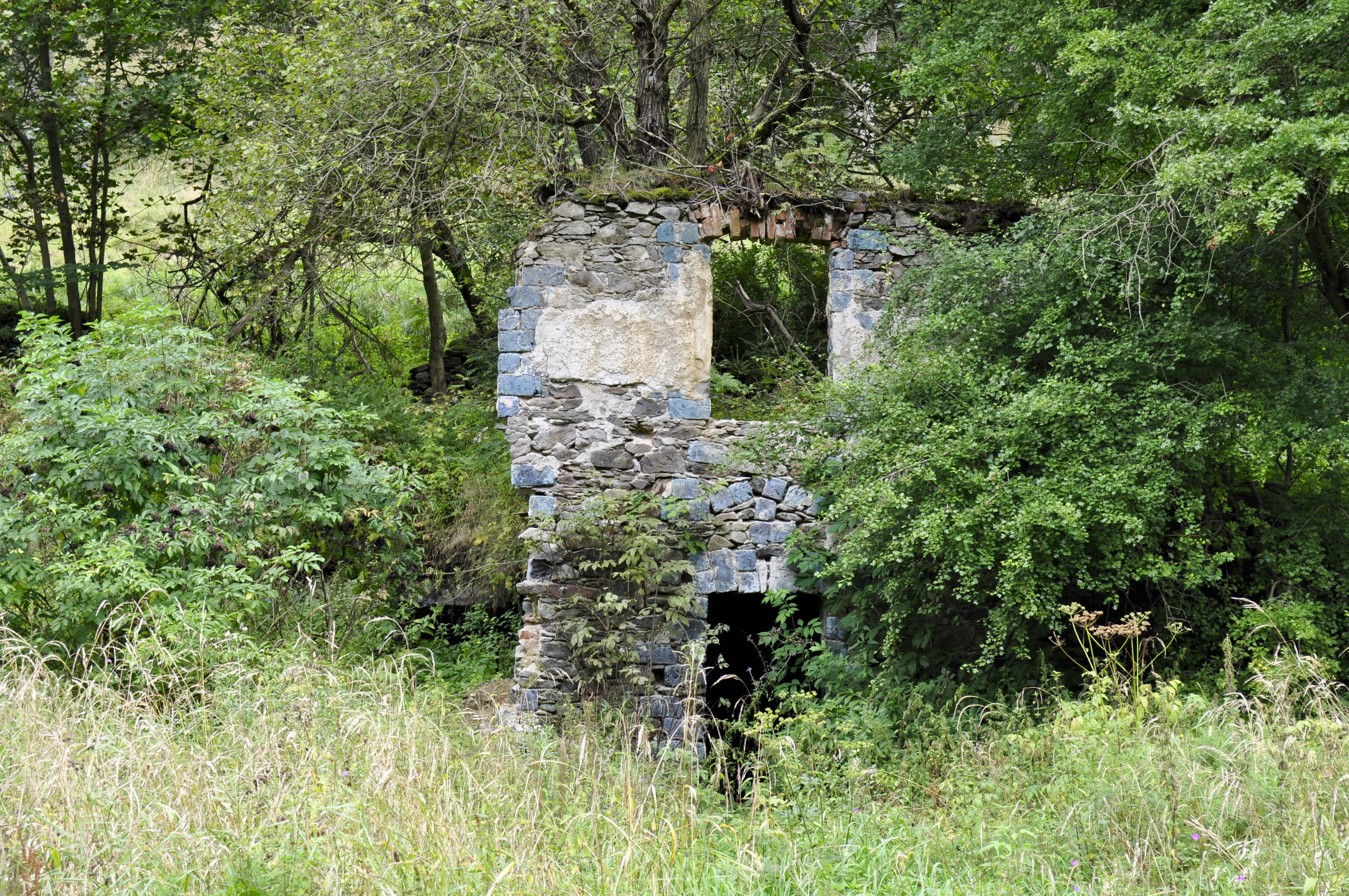 Ruins of a building in Gabrielina Huť - there are used blue slag bricks in the wall